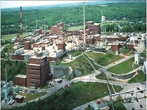 An aerial photo of the Miamisburg Site located in Ohio before cleanup activities had begun.